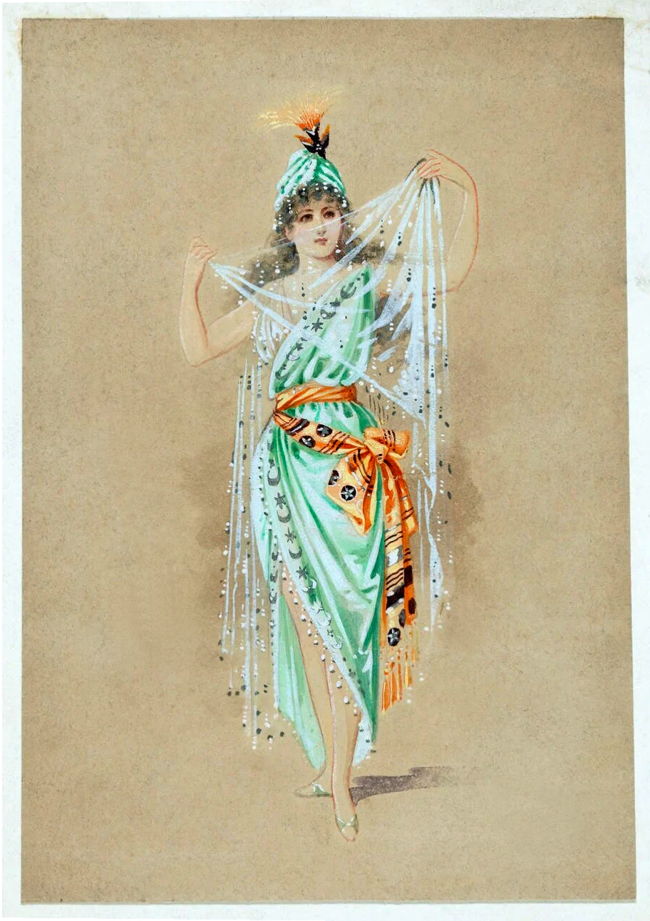 Kate Alice Candelin aka Kate Vaughan - dancer and actress - died 1903